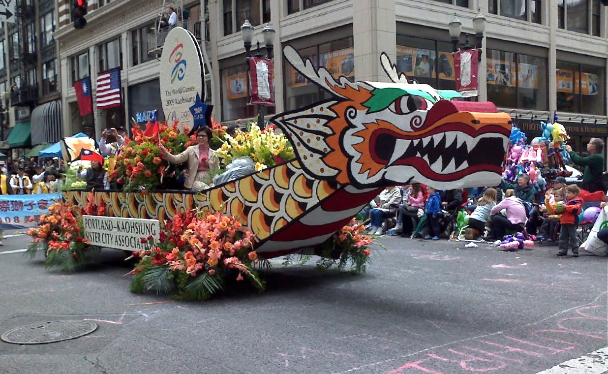 A float in the 2008 Grand Floral Parade of the Portland Rose Festival, in Portland, Oregon. This float, sponsored by the Portland–Kaohsiung Sister City Association, took the form of a Chinese dragon boat, representing one of the festival's annual events, dragon boat races on the Willamette River.